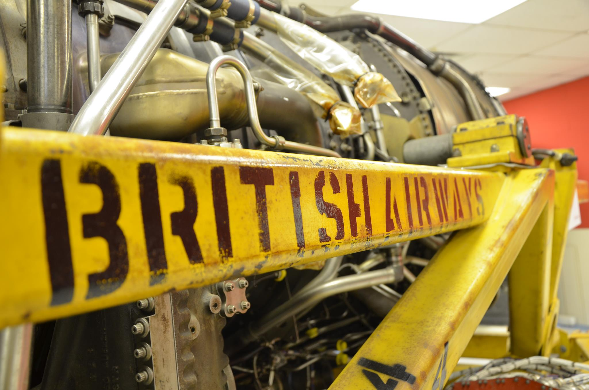 Concorde's powerplant